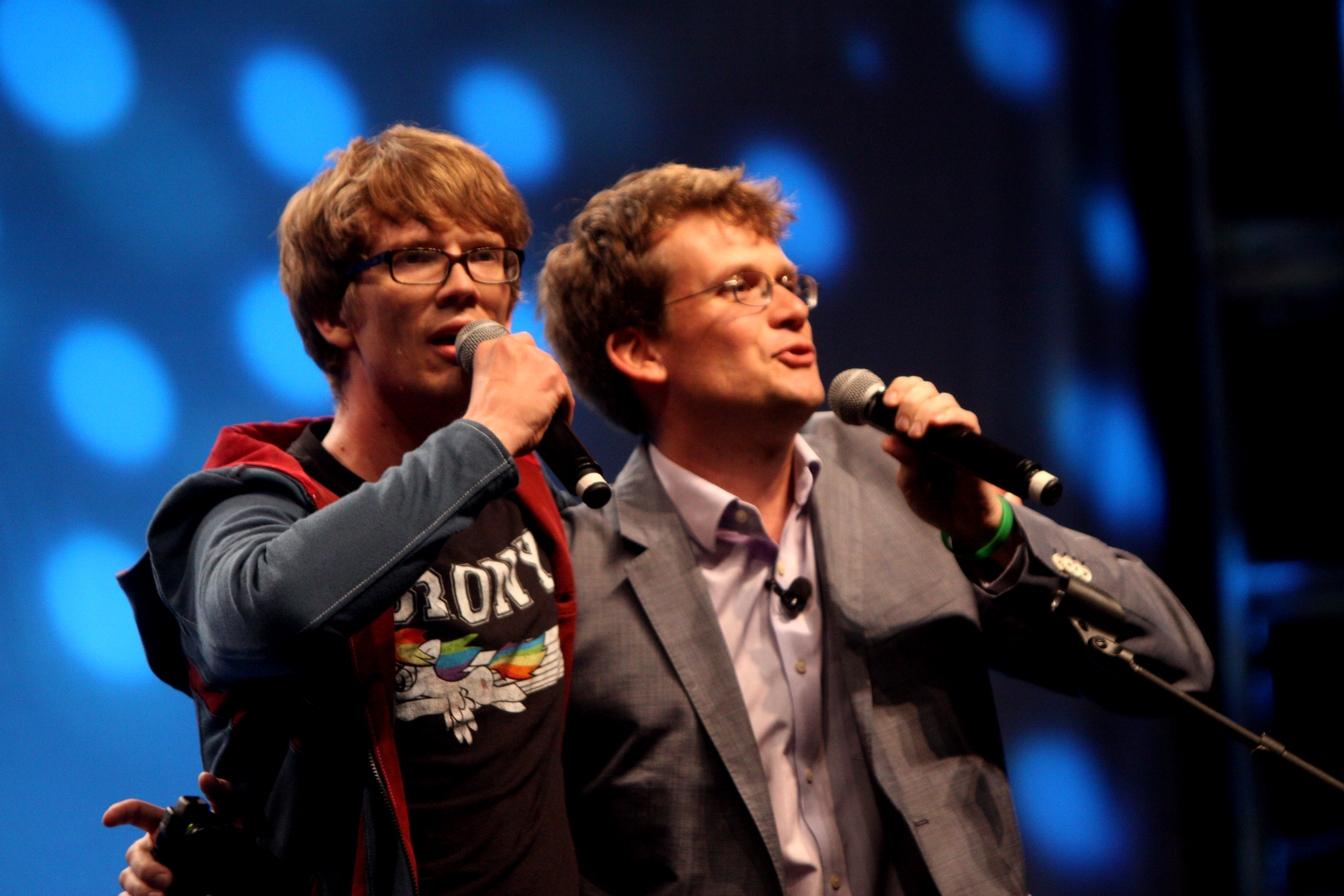 Hank & John Green speaking at VidCon 2012 at the Anaheim Convention Center in Anaheim, California.